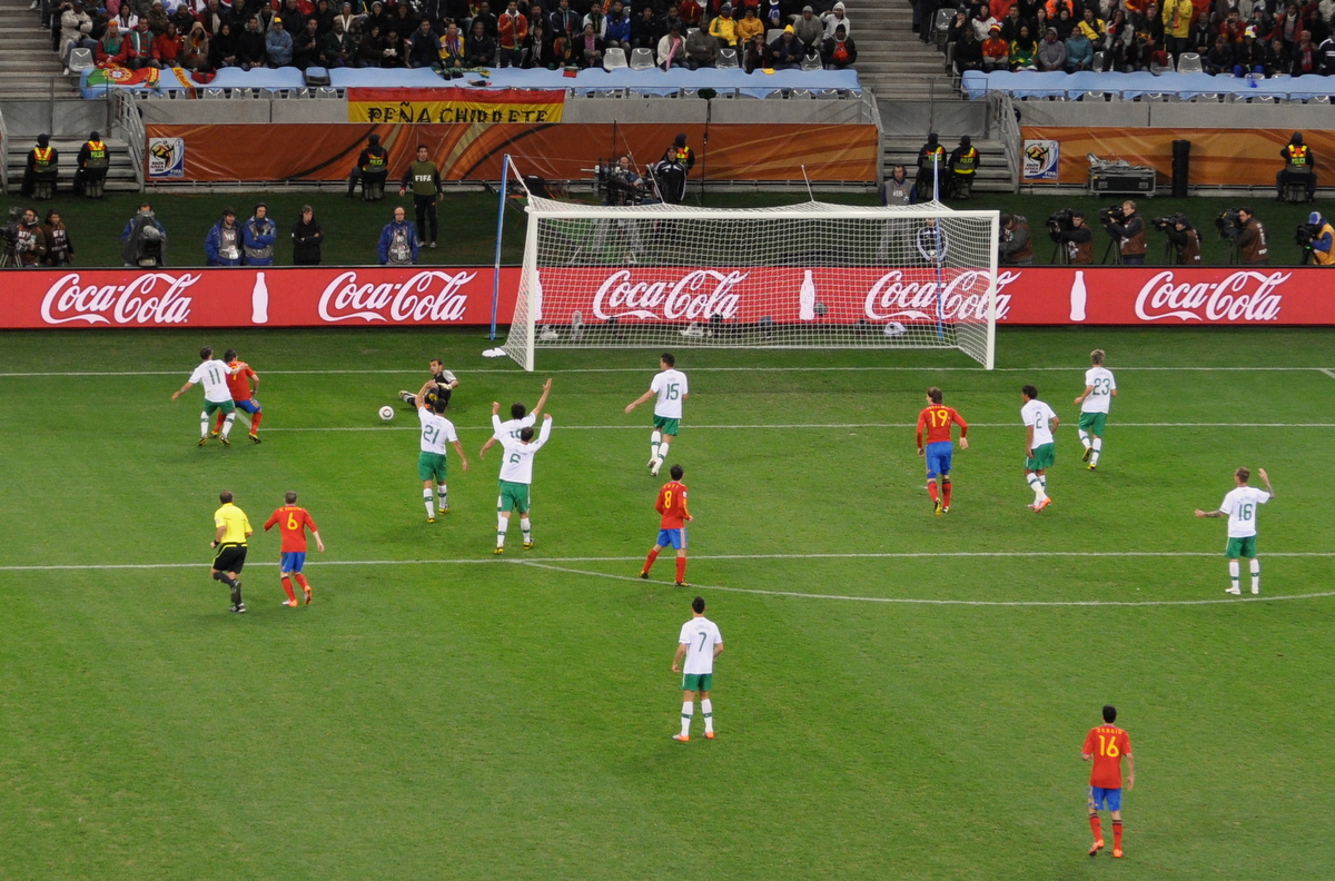 David Villa's first shot before scoring